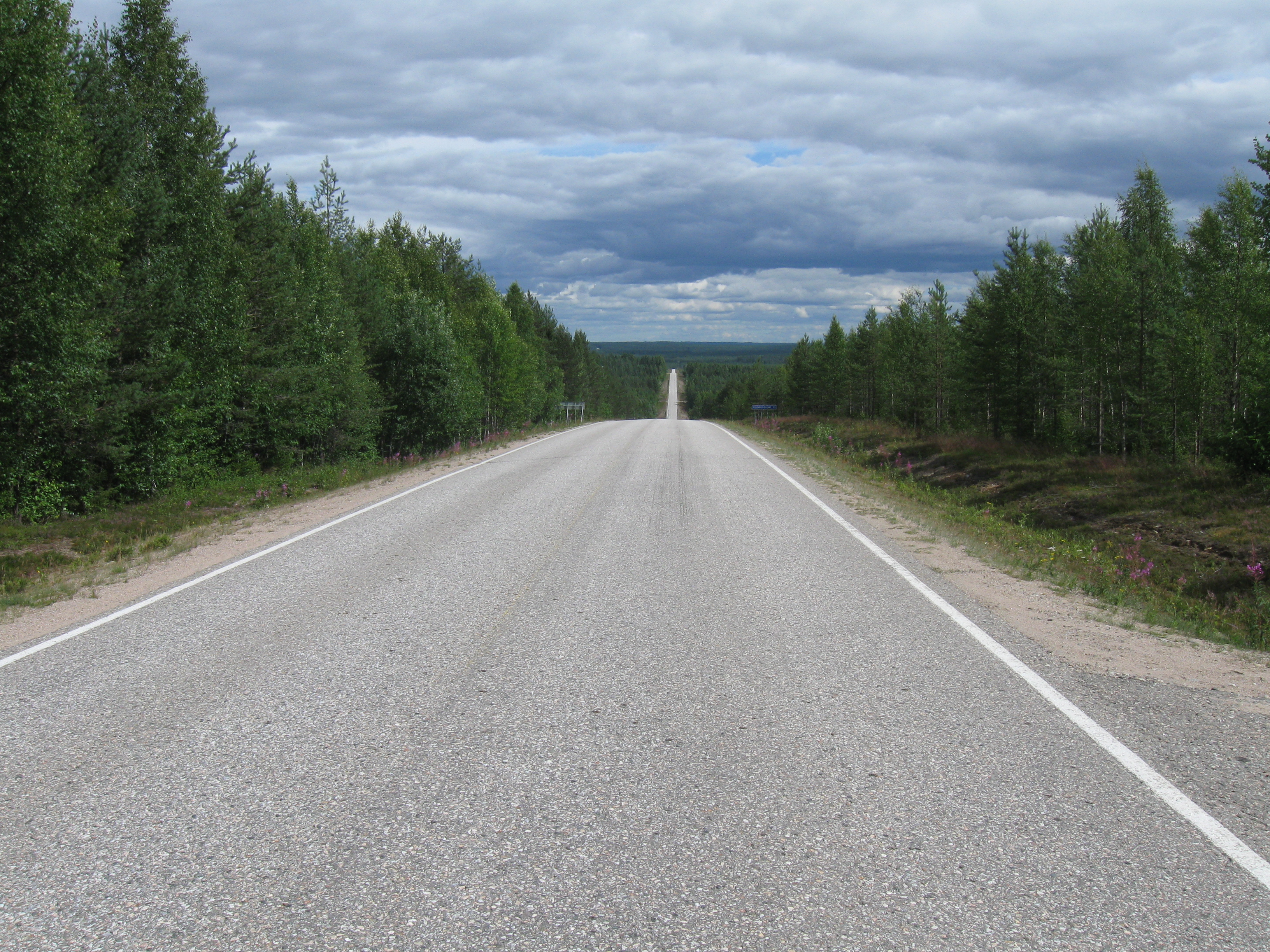 Regional road 892 at Kytömäki, Hyrynsalmi, Finland, towards Ämmänsaari in North-East.